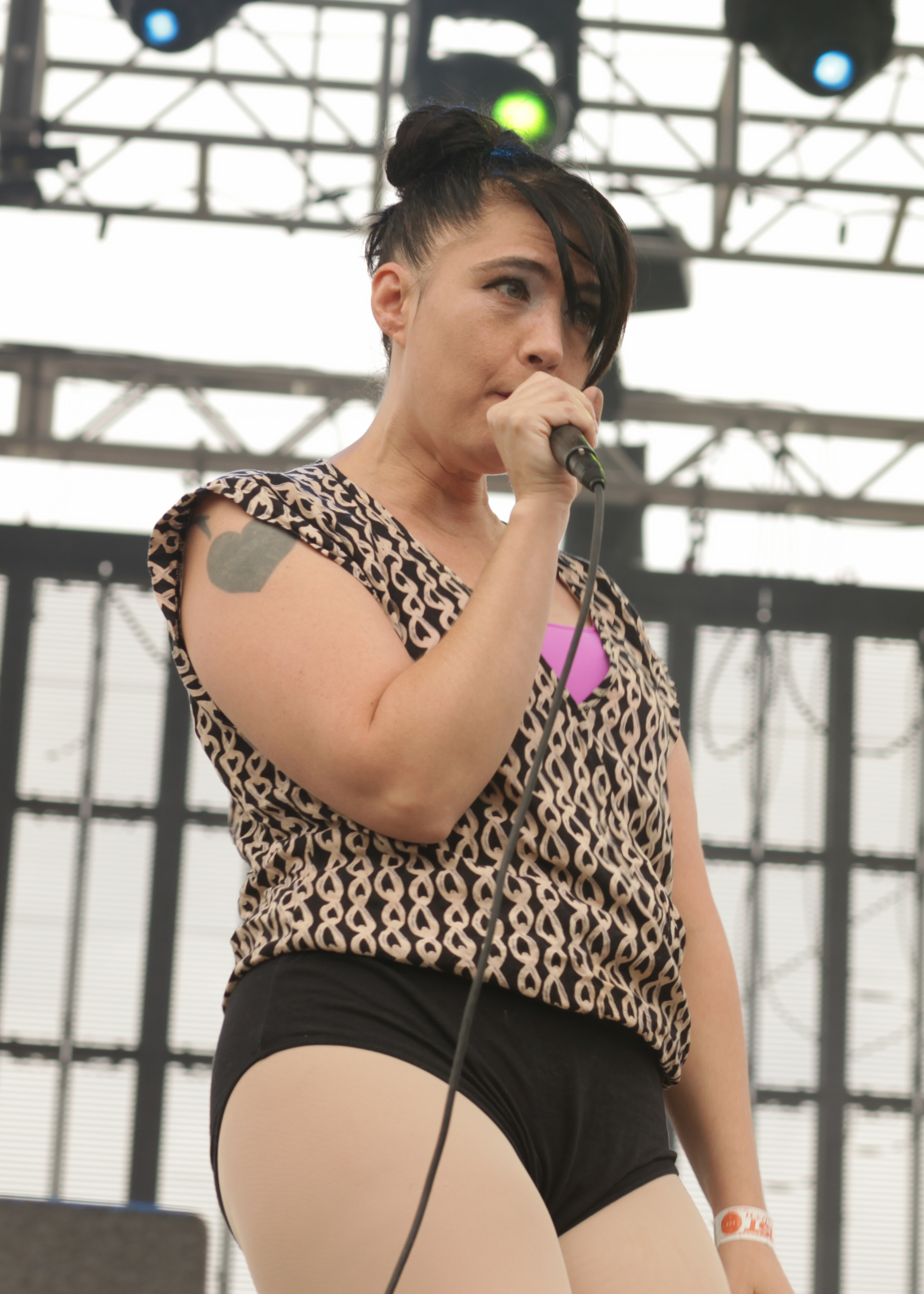 Kathleen Hanna of the Julie Ruin at Fun Fun Fun Fest 2013